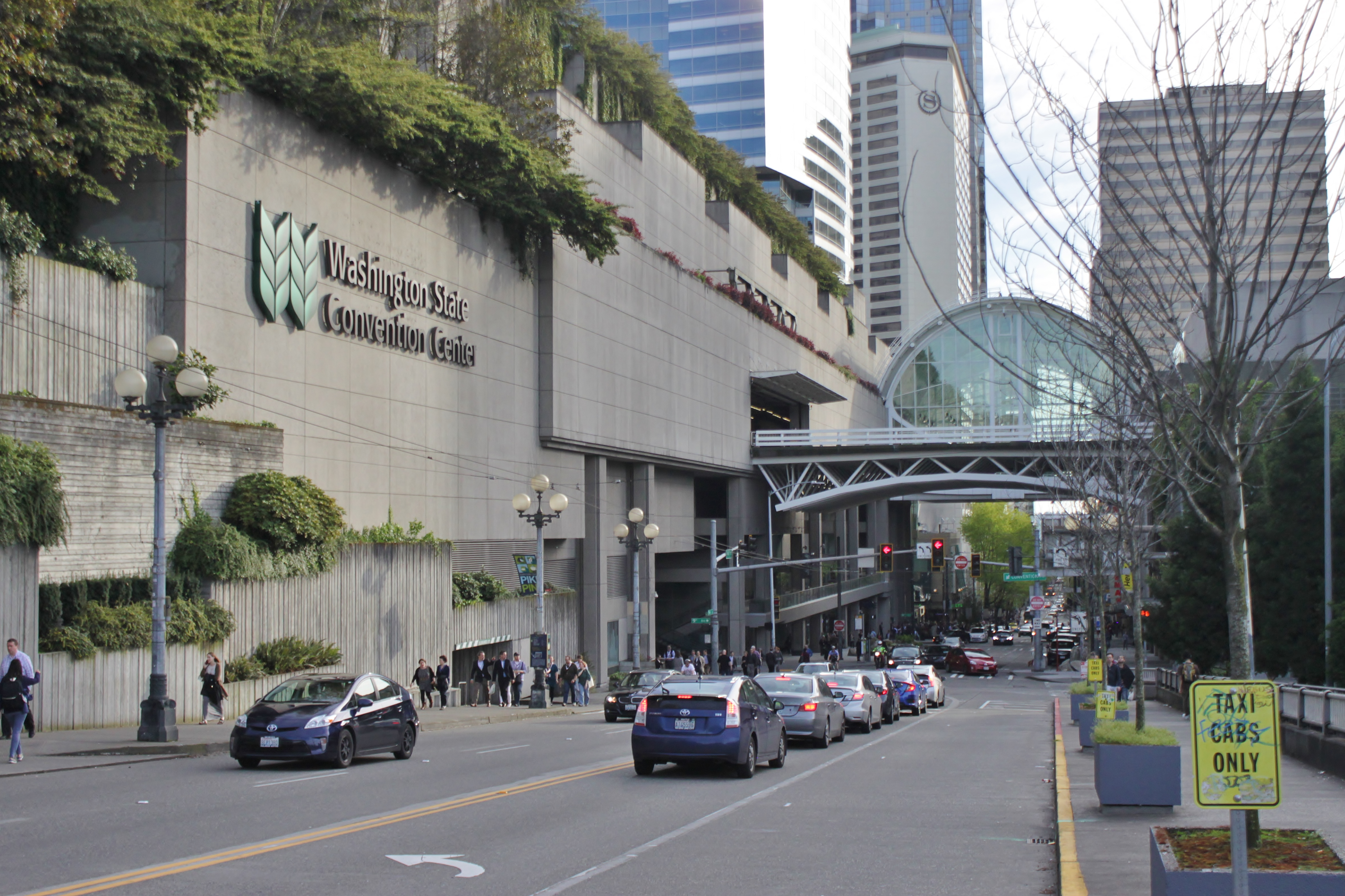 The north exterior wall of the Washington State Convention Center, over Interstate 5 in downtown Seattle, seen from the north side of Pike Street.